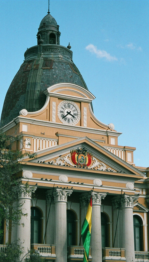 Congress building (Palacio Legislativo) in La Paz